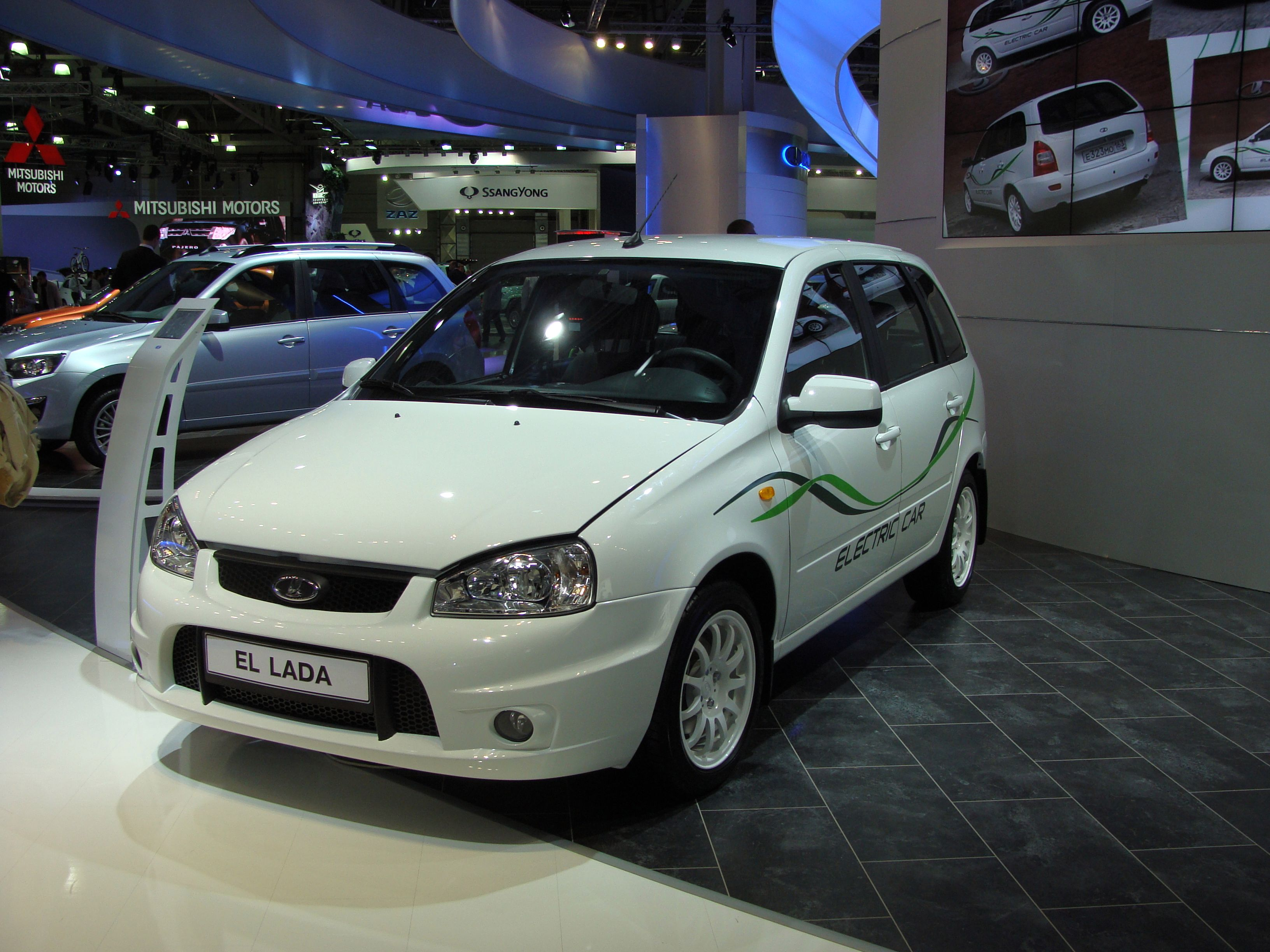 El Lada - russian electromoblie on MIAS 2012.